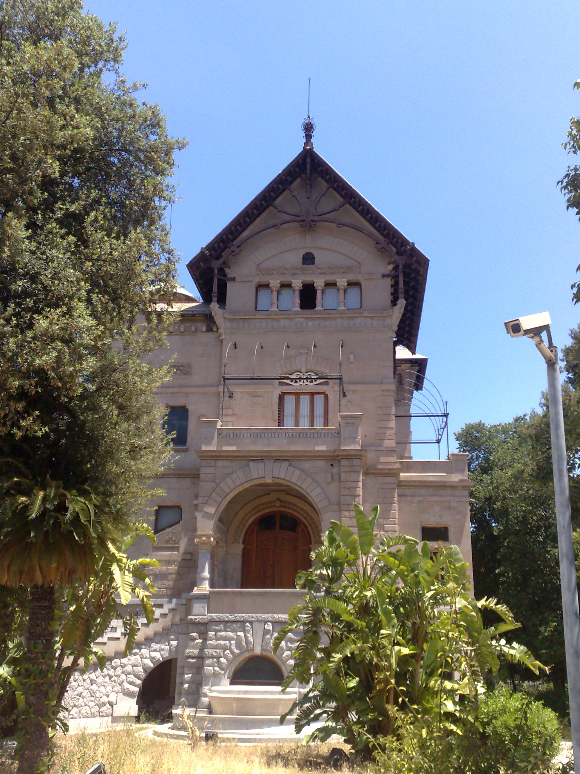 Villino Florio, Art Nouveau villa in Palermo, by Ernesto Basile.